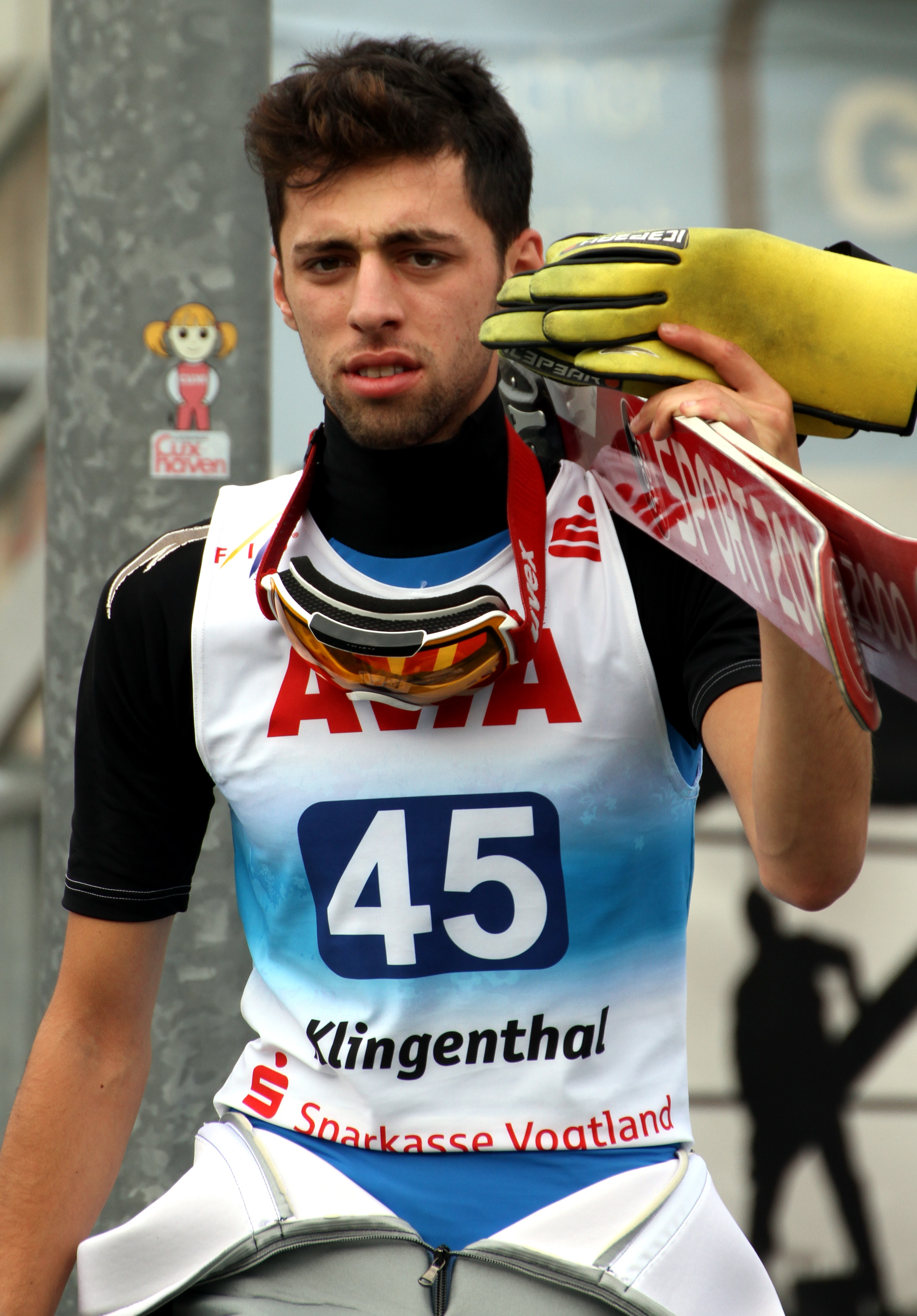 FIS Ski Jumping Summer Continental Cup Klingenthal 2017 Fatih Arda İpcioğlu